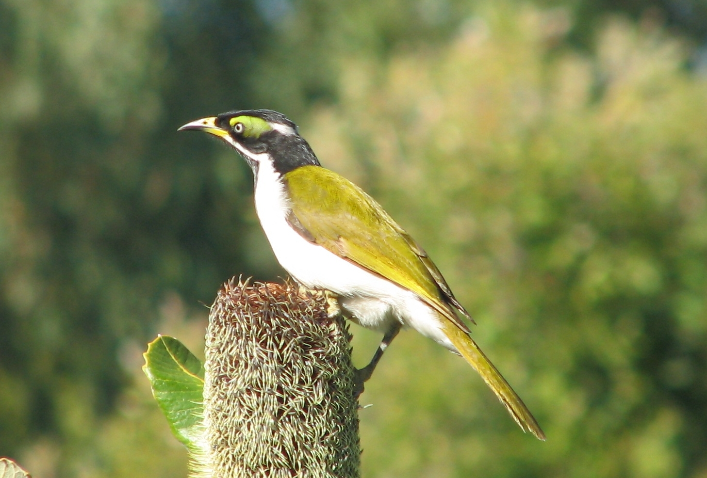 Juvenile blue-faced honeyeater - just one of more than 210 bird species found at Lake Awoonga, Central Queensland